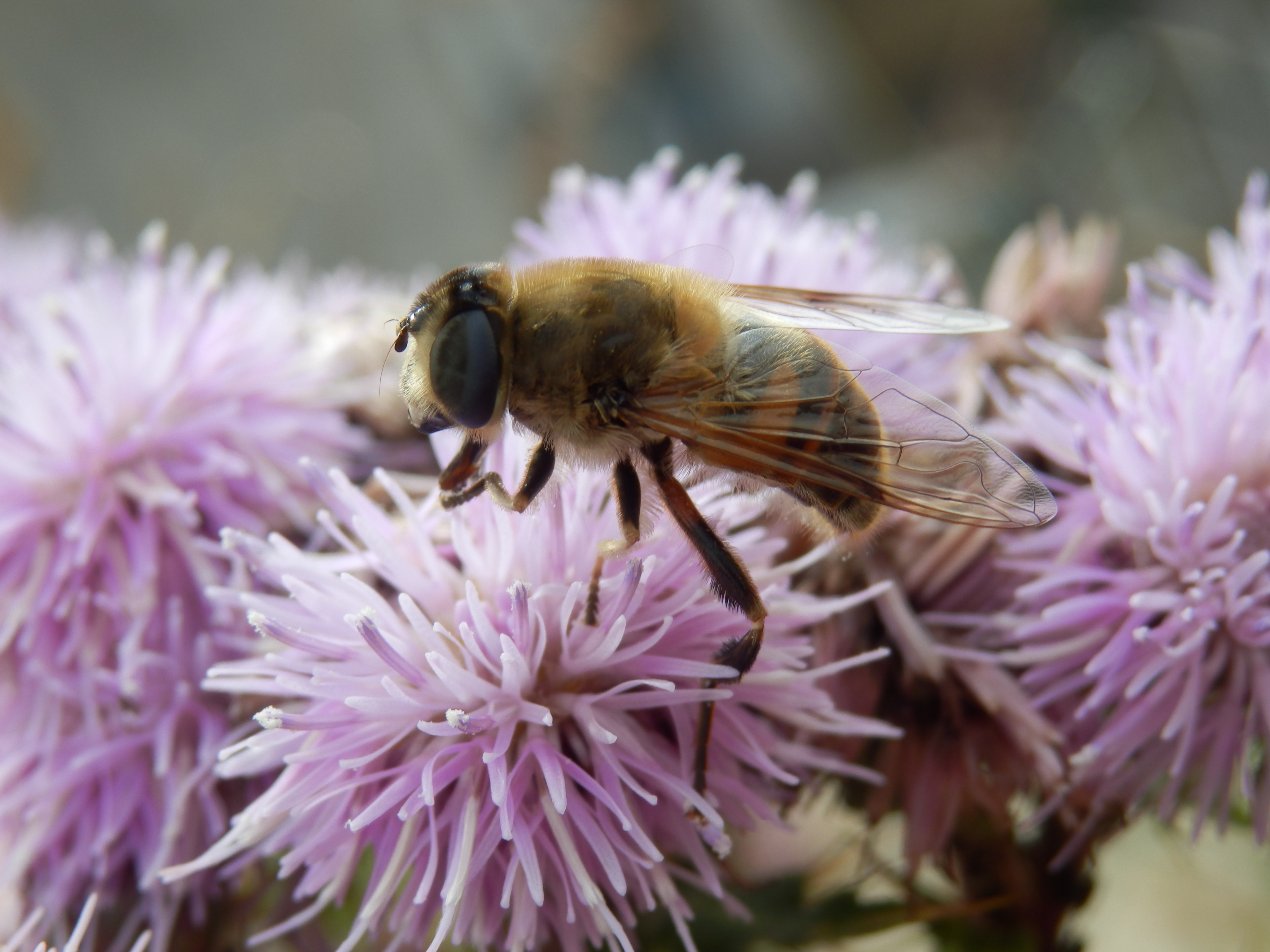 Drone fly on a thistle flower. In brittany, Morbihan